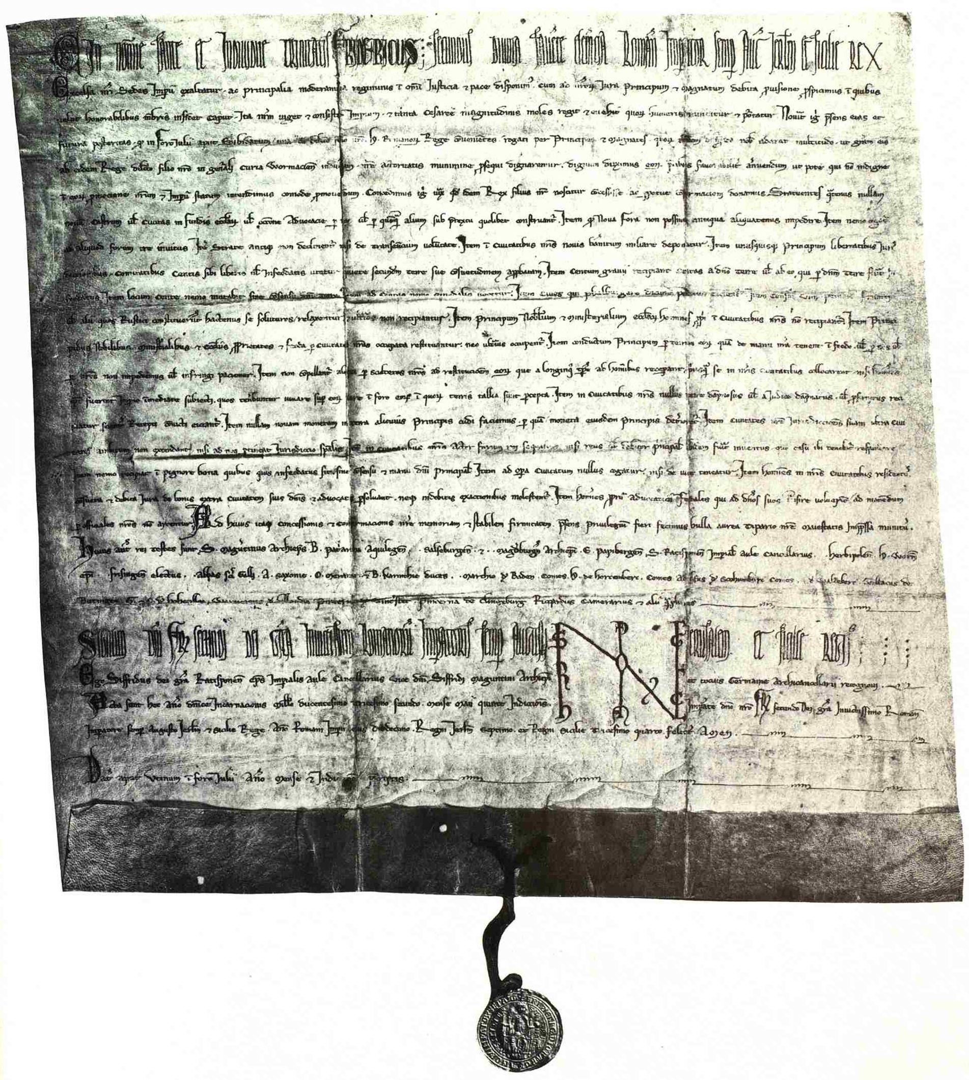 The „Statutum in favorem principum“ (Würzburg copy).